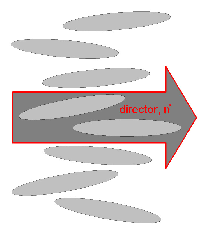 The local nematic director which is also the local optical axis is given by the spatial and temporal average of the long molecular axes over a small element of volume and time.